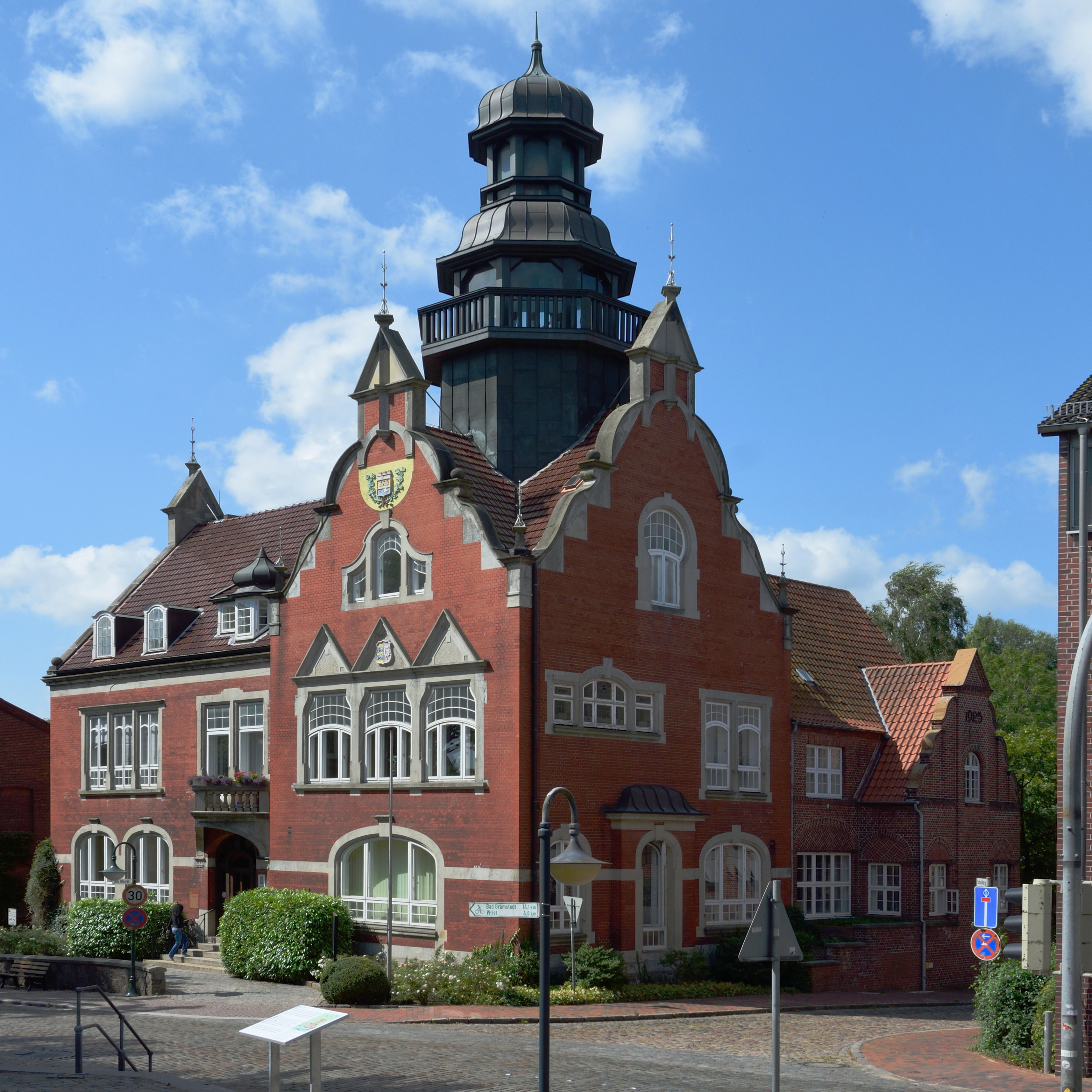 The Town Hall in Kellinghusen is the cultural monument number 2 with the address "Am Markt 9"